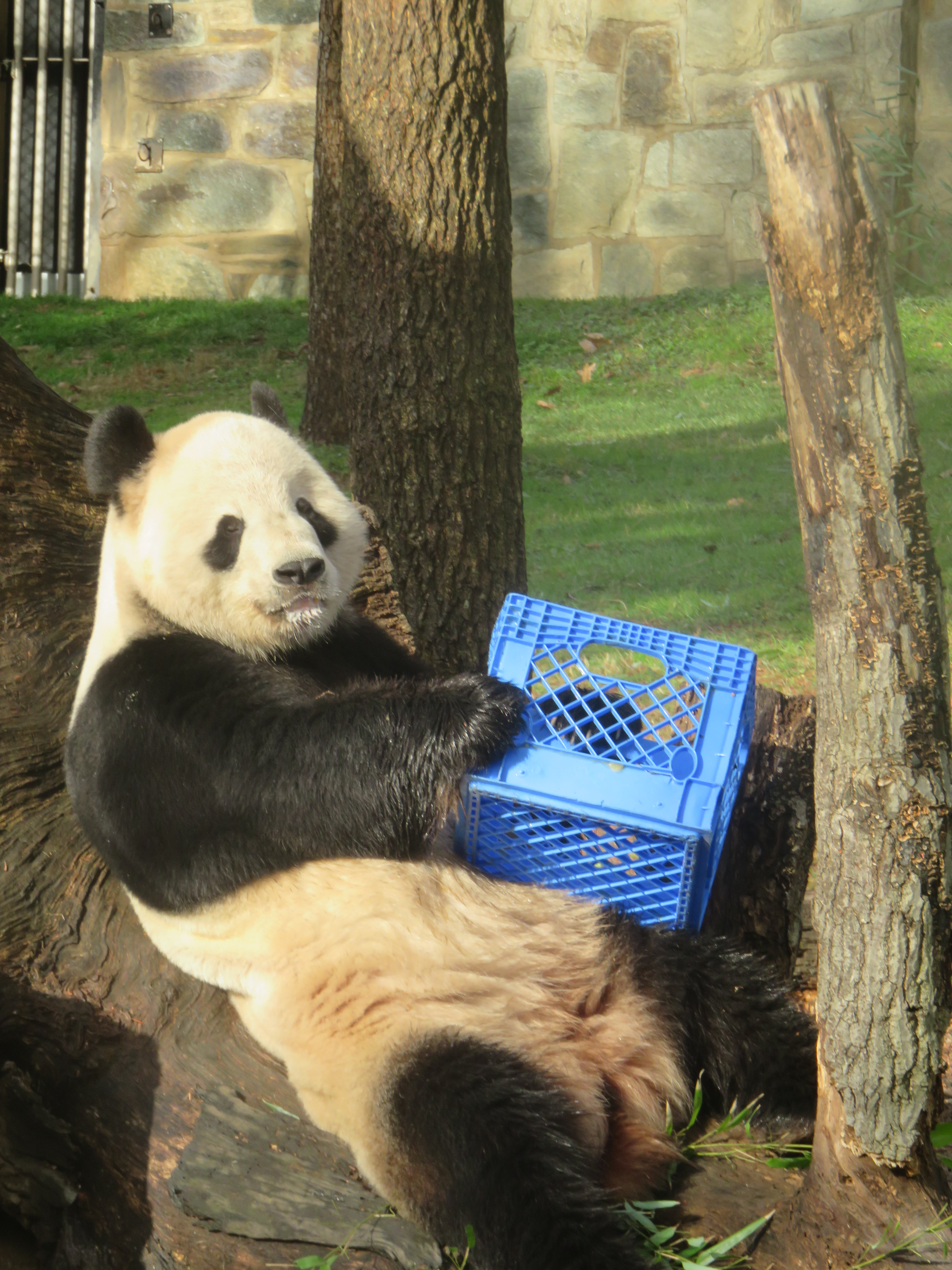 Tian Tian at the National zoo